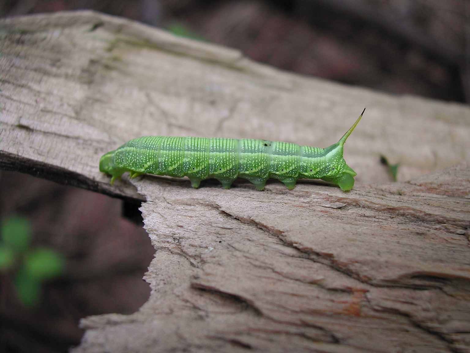 Deidamia inscriptum